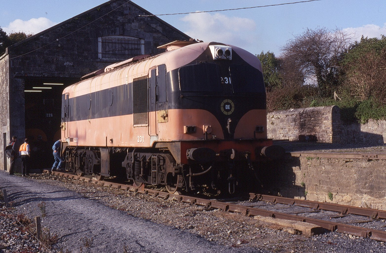 Taken during a photo-stop on the Irish Traction Group's railtour "The Bell Viewer" on 23 October 1993. This allowed passengers to visit the collection of preserved locos owned by the same group which are based in the old goods shed. Seen here is C Class no. 231 and like the A Class, these were built by Metropolitan Vickers in the late 1950s. Re-engined with General Motors engines to replace the unreliable engines made by Crossley. As they were re-engined, they were re-classified as B Class. They were used for both freight and passenger traffic. During their last few years they were adapted for push-pull working with de-engined railcar stock for Dublin suburban services. CIE withdrew them during the 1980s following the electrification of the Dublin suburban service (DART). However 6 examples were sold to Northern Ireland Railways mainly used on permanent way trains. They were not to last long. Altogether three examples have survived in preservation.